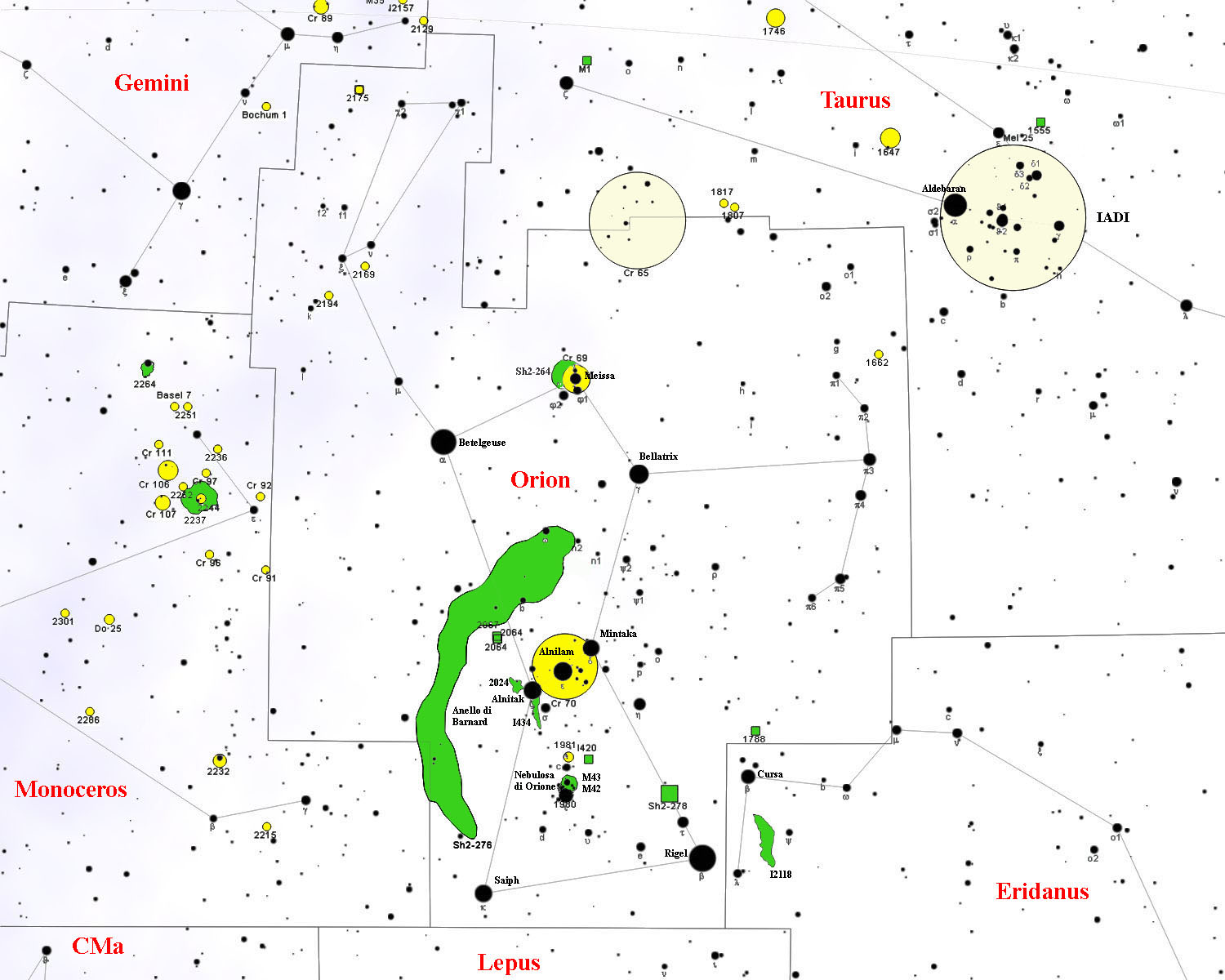 Orion constellation map, with DSOs